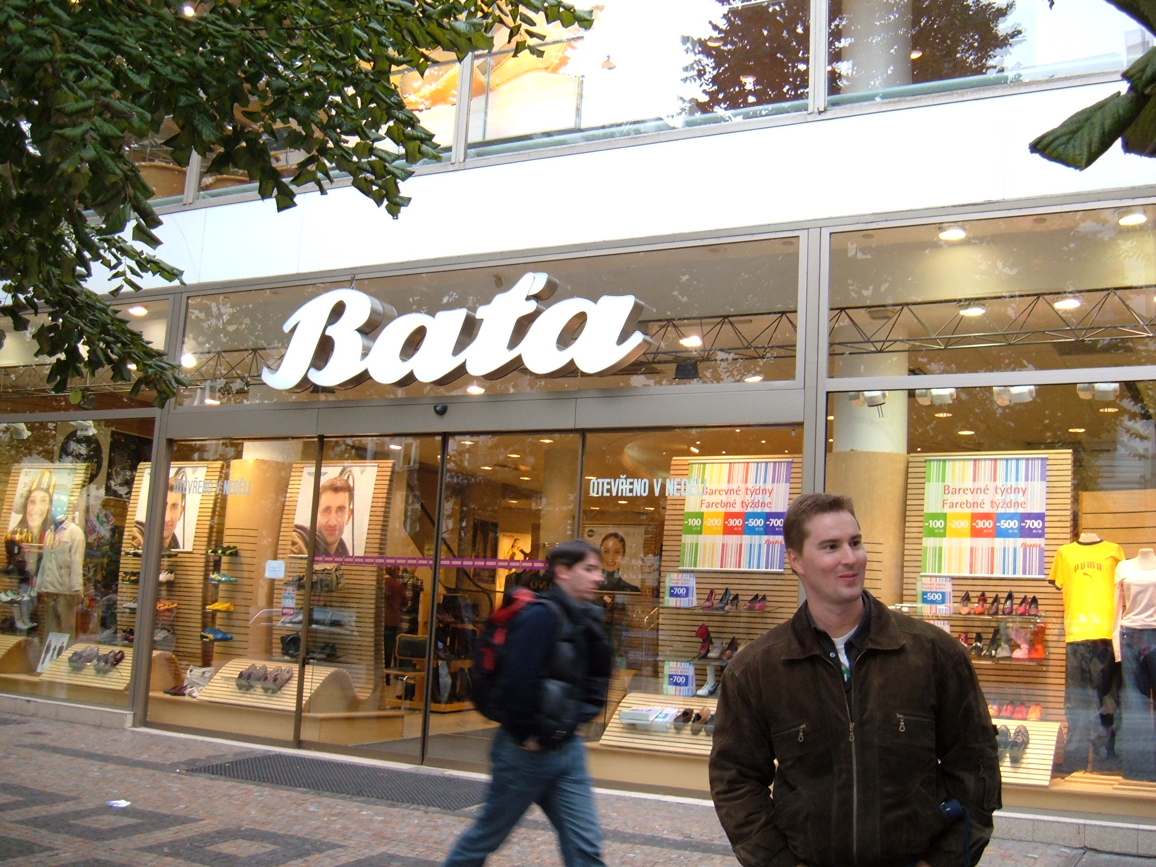 A Bata Shoes store in Wenceslas Square, Prague, Czech Republic.